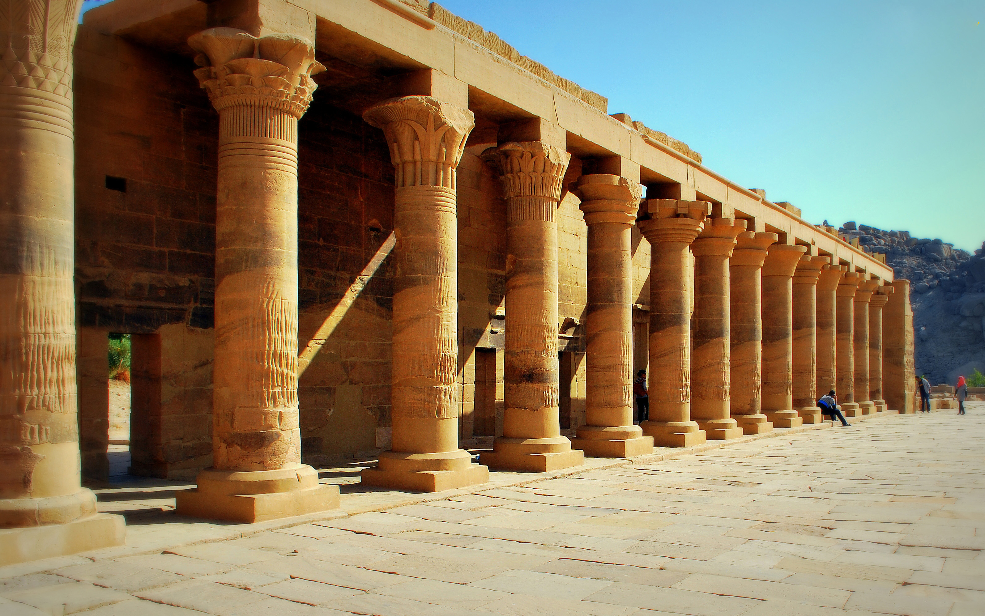 Philae مصرى: فيله